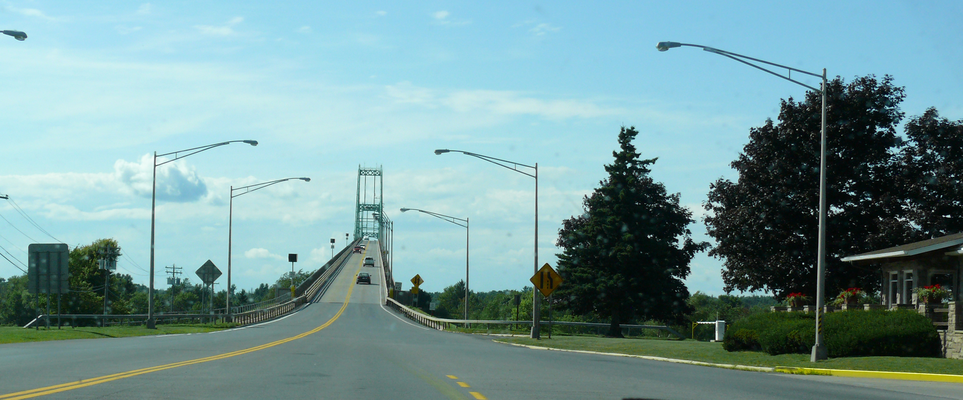 The Thousand Islands Bridge is an international bridge over the Saint Lawrence River connecting northern New York in the United States with southeastern Ontario in Canada in the Thousand Islands region.